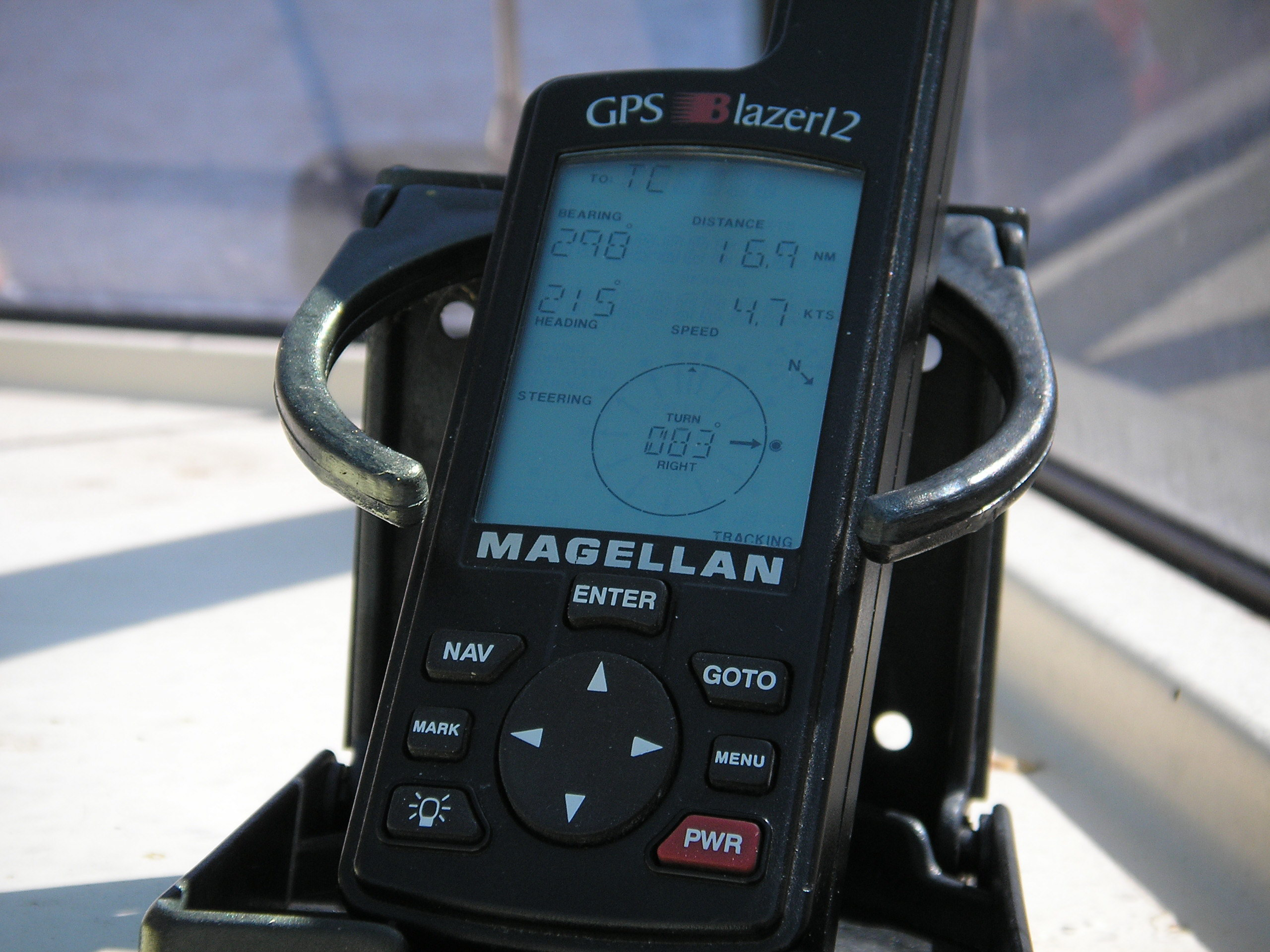 Magellan Blazer12 GPS Receiver.